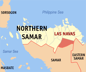 Map of Northern Samar showing the location of Las Navas